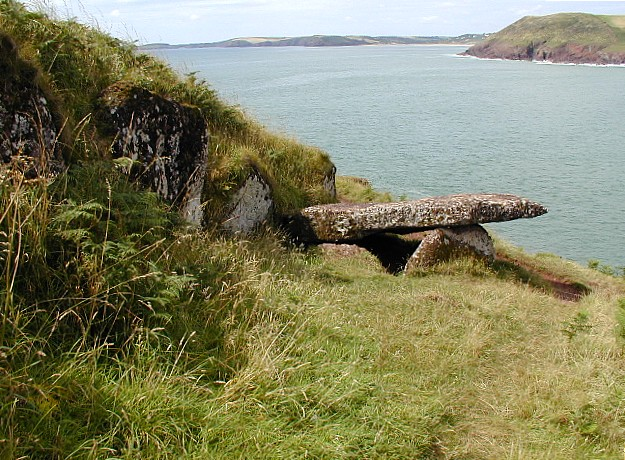 The Kings Quoit , Manorbier Bay